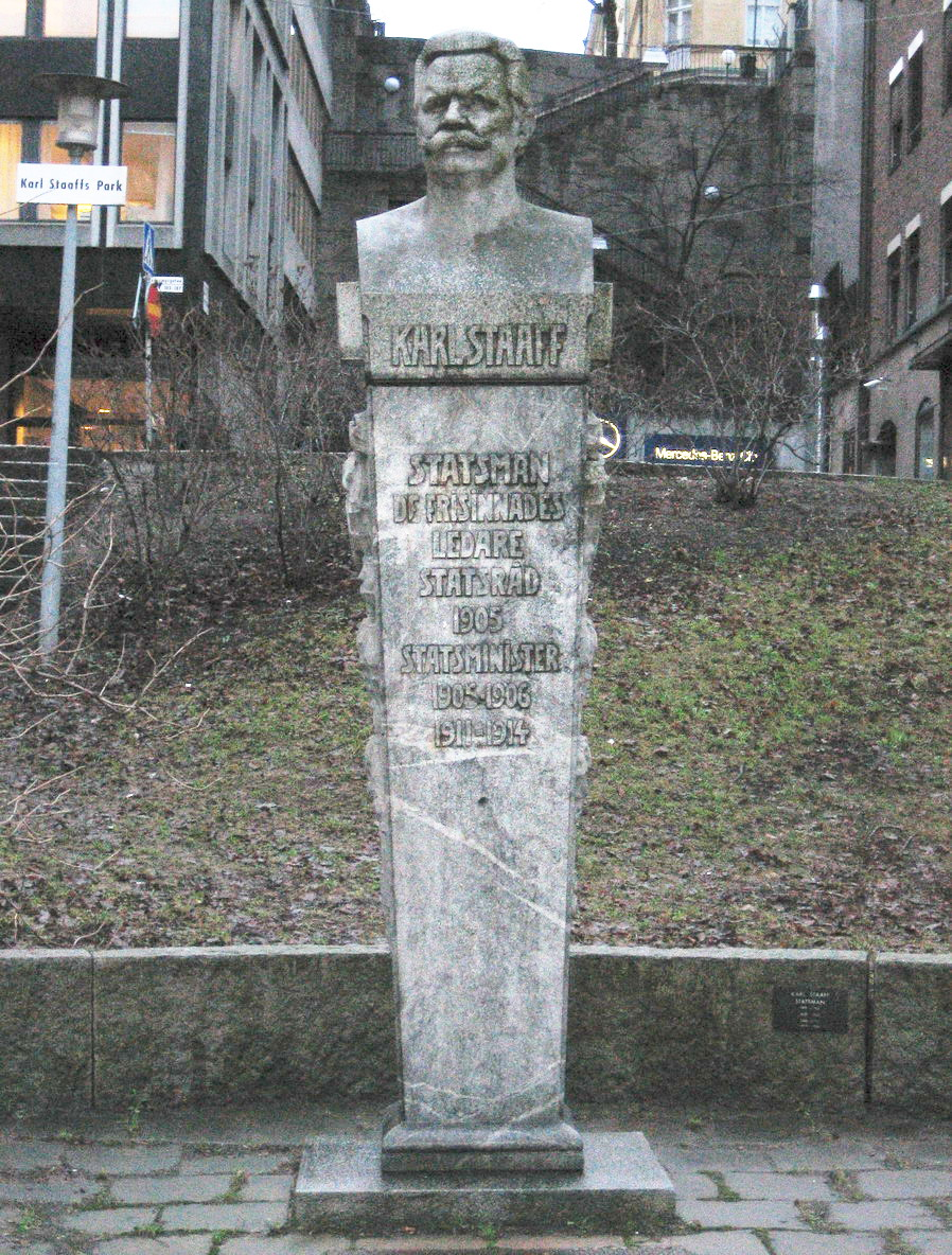 A bust of Karl Staaff in Karl Staaff park in Stockholm, Sweden